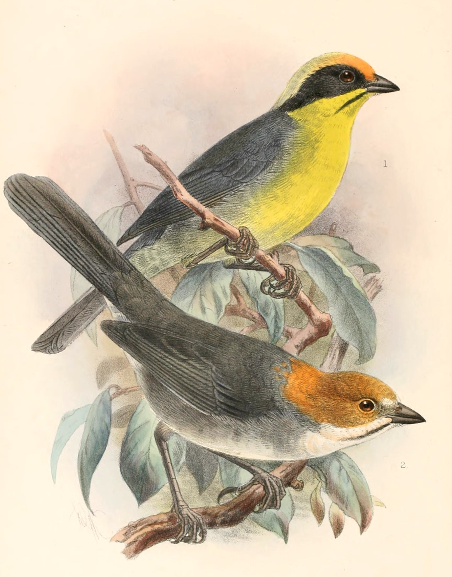 « Buarremon baroni » = Atlapetes latinuchus baroni (Subspecies of Yellow-breasted Brush-Finch) « Buarremon rufigenis » = Atlapetes rufigenis (Rufous-eared Brush Finch)